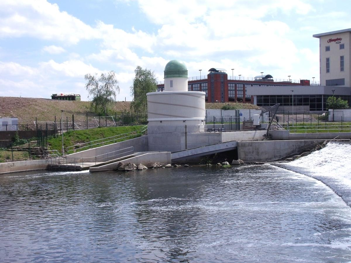 Longbridge Weir Hydroelectric Plant